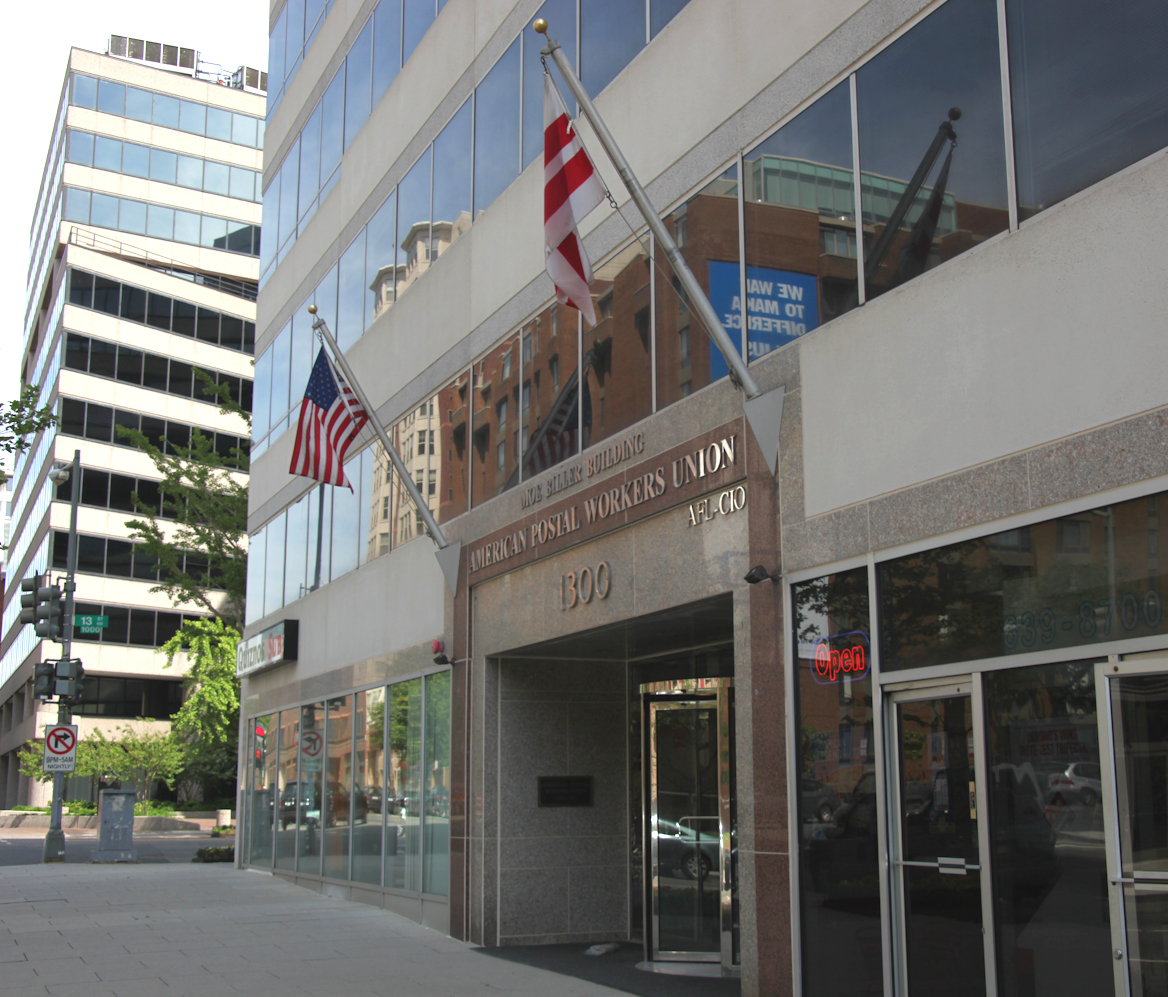 The American Postal Workers Union building at 1300 L Street NW in Washington, D.C., in May 2010.